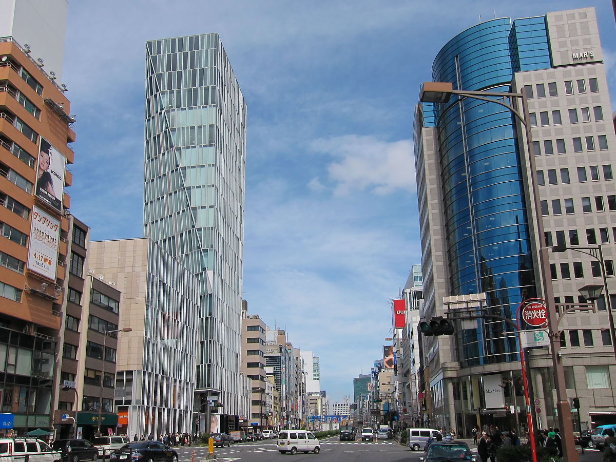 Minami-Aoyama 5, Tokyo